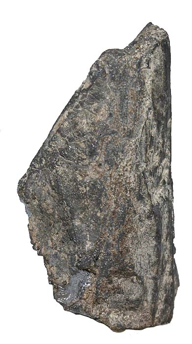 Jordanite Locality: Lengenbach Quarry, Im Feld (Imfeld; Feld; Fäld), Binn Valley, Wallis (Valais), Switzerland (Locality at ) Size: miniature, 4 x 2 x 1.7 cm Jordanite (Huge Crystal !) A ridiculously large crystal for this species! Eric told me that on analysis, it seemed unusually thallium-rich . ex Brun de l'Uni, ex Jean Behier Collections